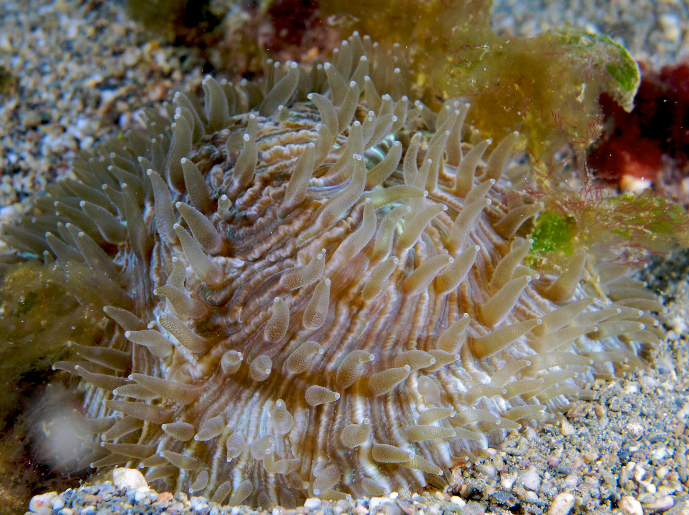 Fungia valida (Mushroom coral) with polyps extended at night. Aceptada como Danafungia horrida (Hoeksema, B. (2013). Fungia valida Verrill, 1864. Accessed through: World Register of Marine Species at on 2013-11-20)